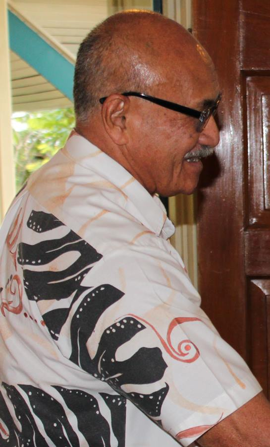 Marking Australia Day this week, High Commissioner Margaret Twomey was pleased to announce the awarding of the Order of Australia to Peter Drysdale. A dual citizen of Fiji and Australia, Drysdale has spent most of his life in Fiji. He was awarded in recognition of his contribution over the last 30 years to providing low-cost housing for disadvantaged Fijians through what is now the Koroipita Model Town Charitable Trust. Ms Twomey announced Drysdale's award to guests at the Australia Day function hosted at the High Commissioner's residence in Suva on Tuesday. Guests at the event included Government ministers and senior officials, heads of media organisations, local businesses and regional organisations, members of the diplomatic corps and civil society. The Order of Australia is Australia's highest recognition for outstanding achievement and service